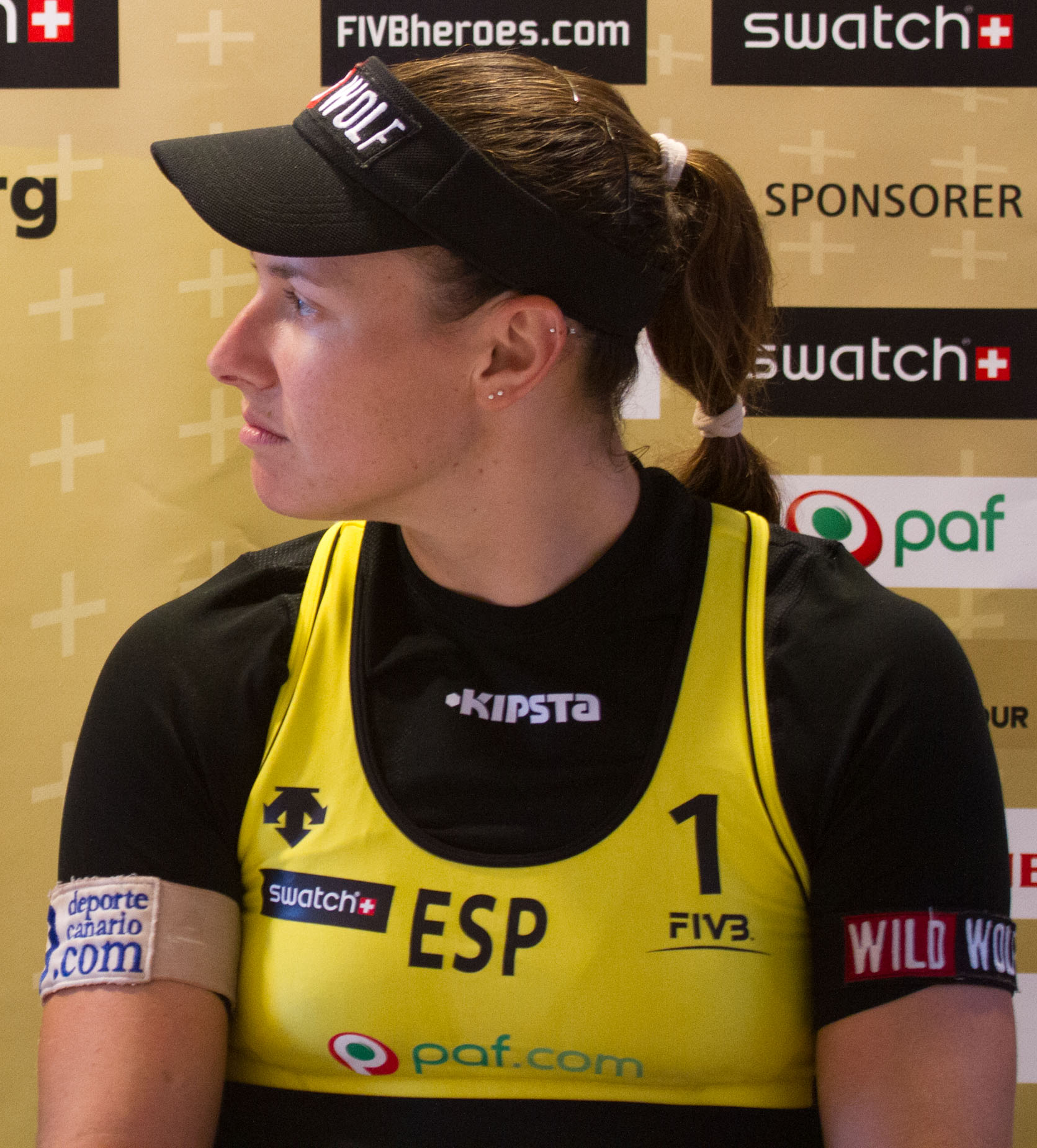 Liliana (right) and Baquerizo (left) of Spain book their place in the final of Paf Open in Mariehamn on September 1 2012, Åland, Finland. Photograph: Rob Watkins/ This picture is free to use as long as it it credited: Rob Watkins/